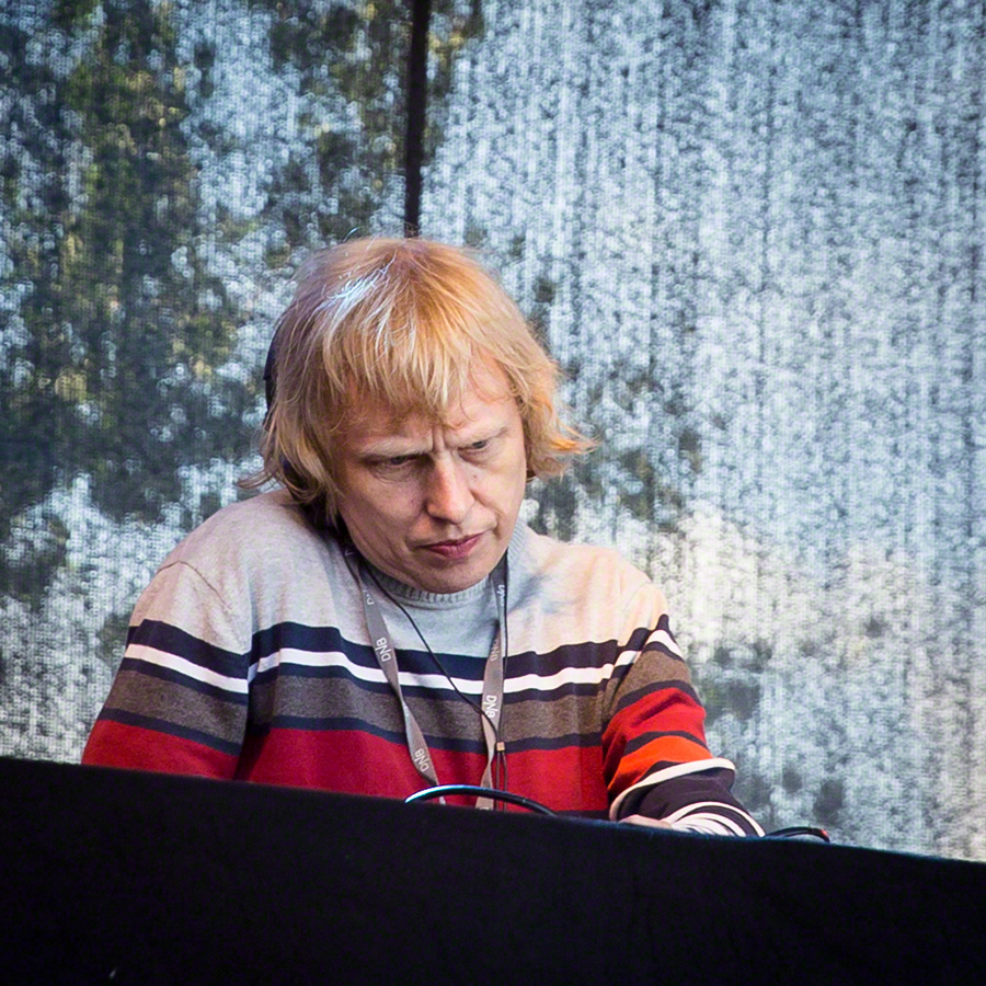 Bjørn Torske performs at Quart Festival in Kristiansand on 29. June 2016. Lineup:Bjørn Torske (Disc jockey)